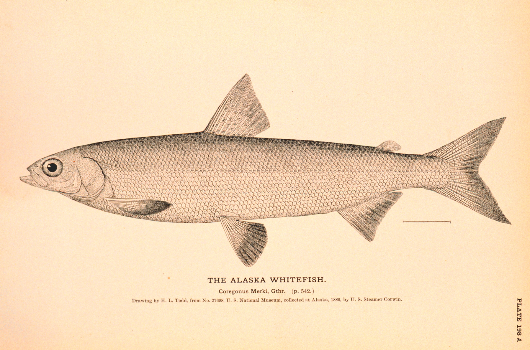 Engraving of Alaska whitefish, Coregonus nelsonii (syn. Coregonus merki), from the Natural History of Useful Aquatic Animals.